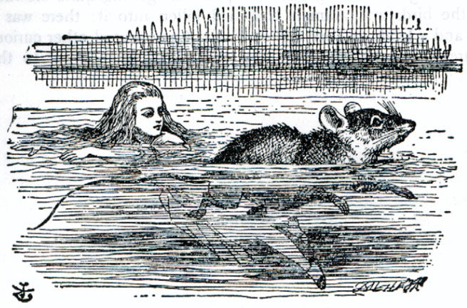 John Tenniel illustration of Alice swimming in a pool of tears in Lewis Carrol's Alice in Wonderland.